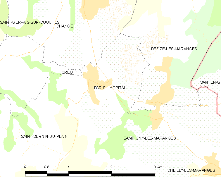 Map of French municipality